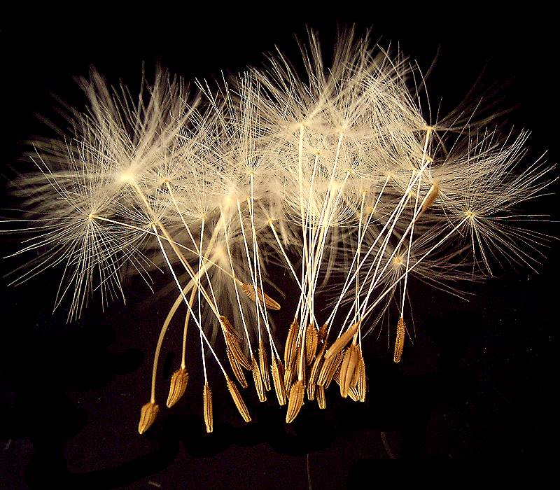 Taraxacum sect. Ruderalia (Syn. Taraxacum officinale agg.)